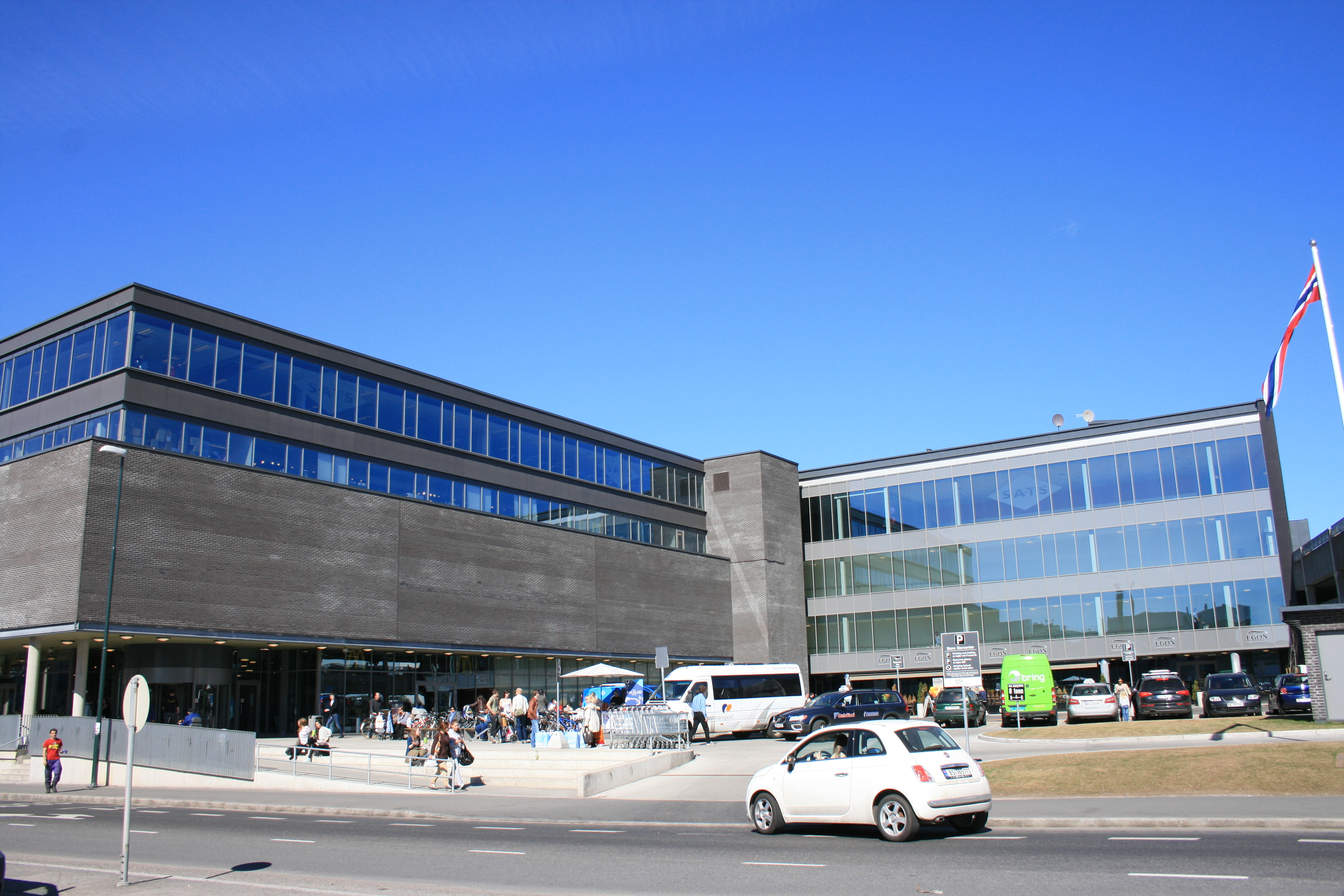 Storo Storsenter is a shopping centre at Storo in Oslo, Norway.